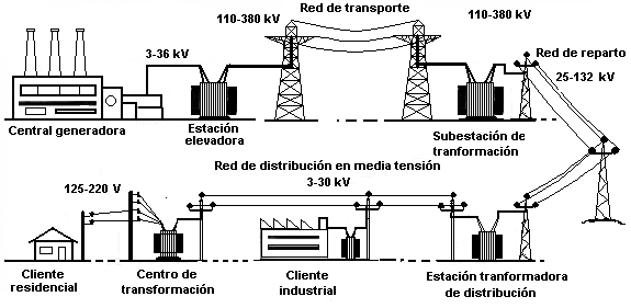 Simplified scheme of the system of electrical power. NOTE: This image created by me was before uploaded to Wikipedia in Spanish, but I believe that now it is better in Commons.